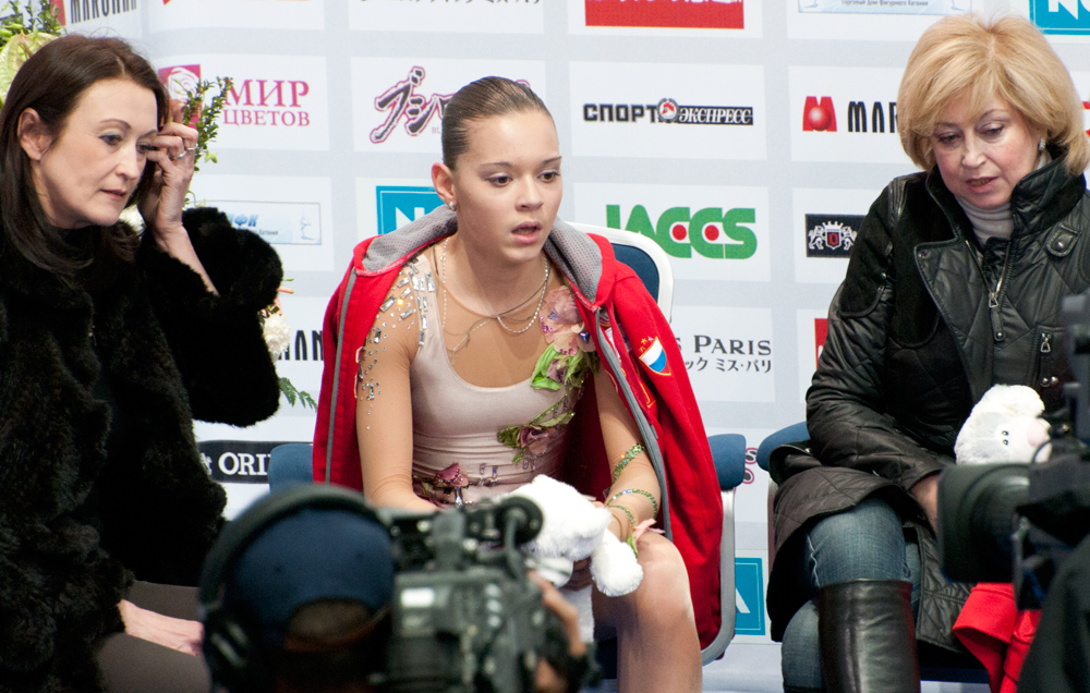 2011 Cup of Russia, free skating.